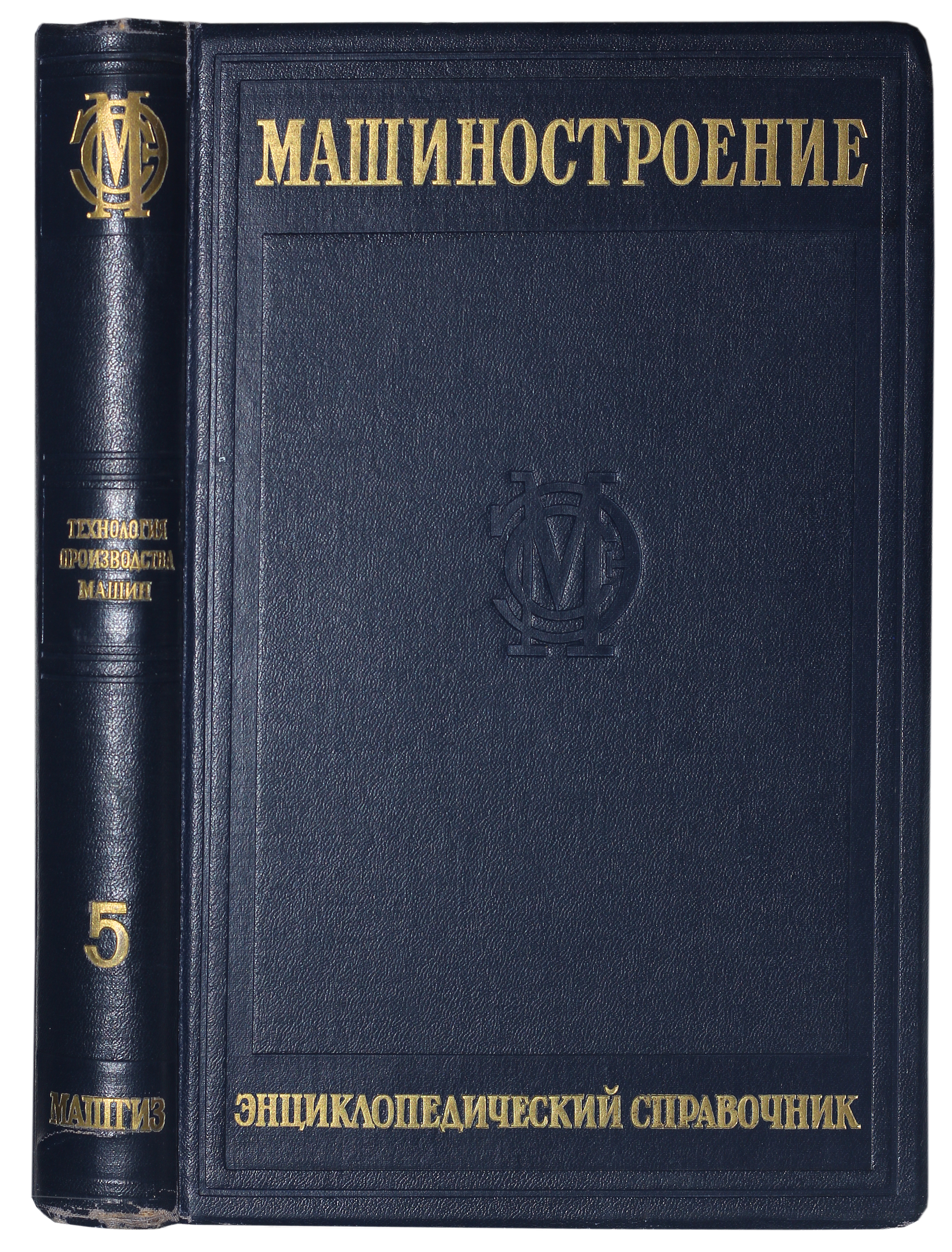 Mechanical Engineering - Encyclopedic enchiridion. 1947 year.